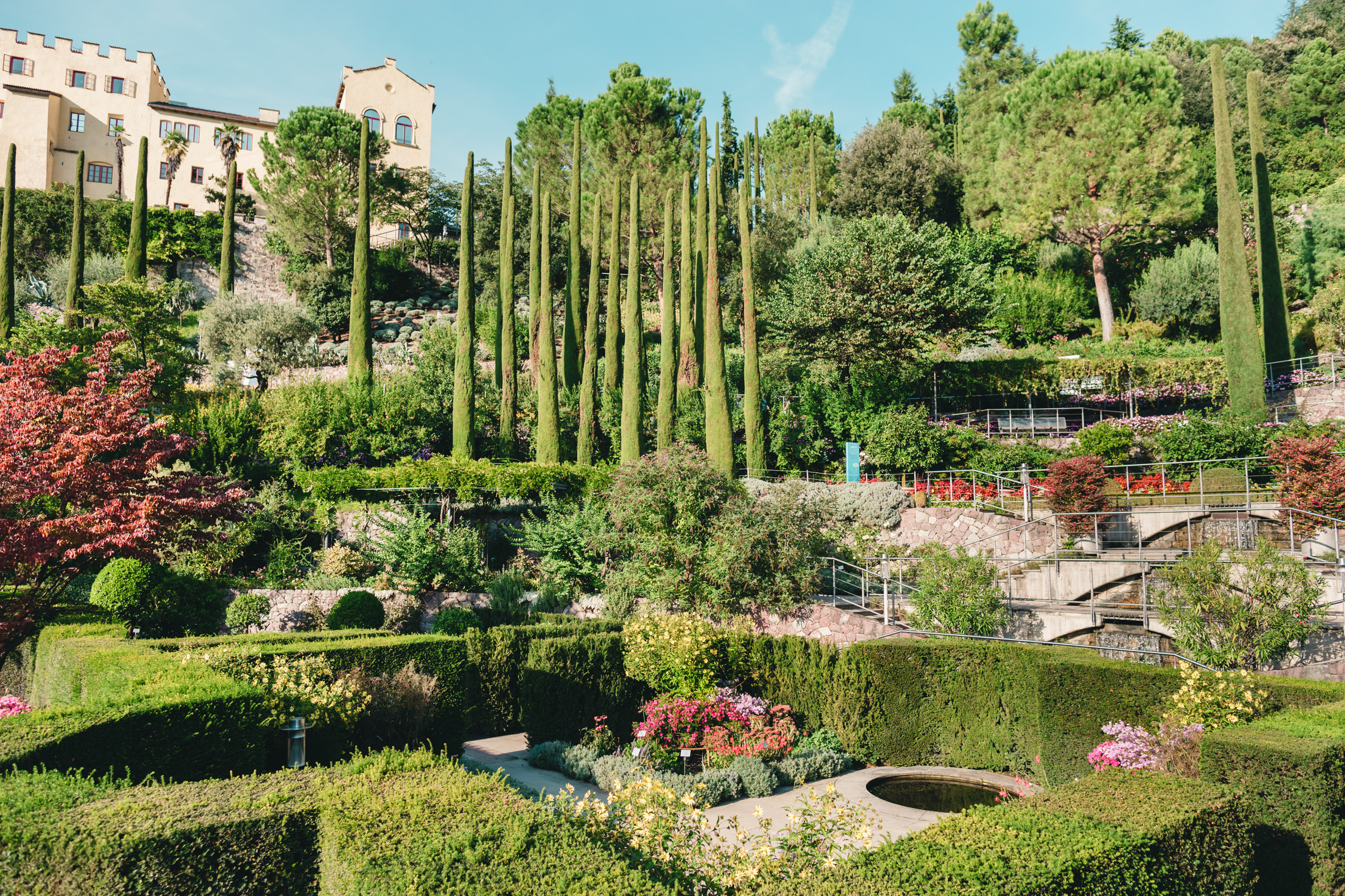 Water and Terraced Gardens with Trauttmansdorff Castel in the backround